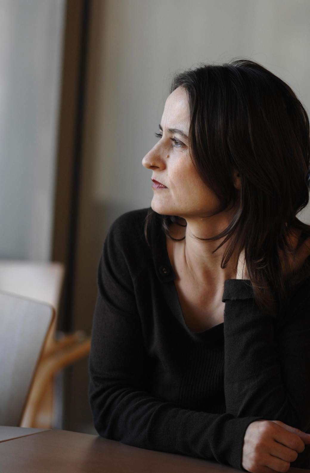 Portrait of Sasha Waltz (2007)